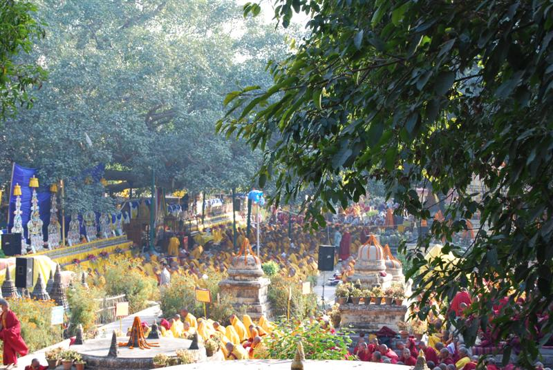 Tibetan Buddhists assemble for the Monlam prayer festival in Bodhgaya, India, on December 21 2007.